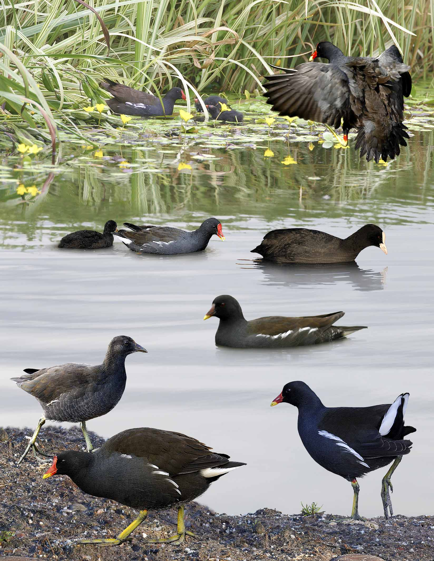 Common Moorhen from the Crossley ID Guide Britain and Ireland